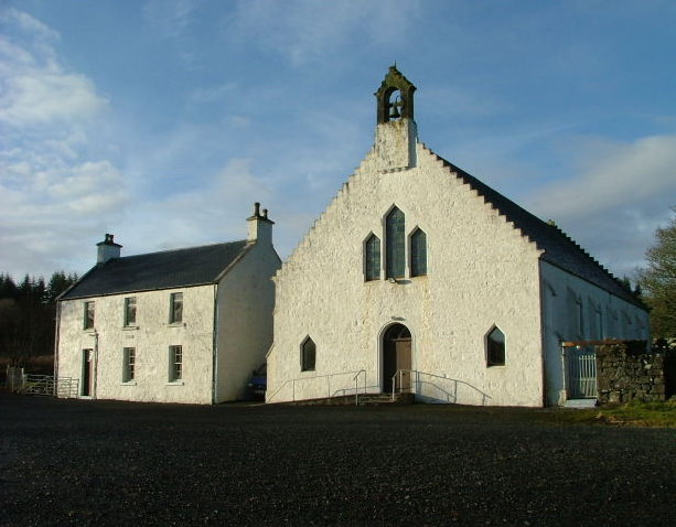 Snizort Free Church of Scotland The church, built 1847 is at Skeabost Bridge and sits on the edge of Loch Snizort Beag.